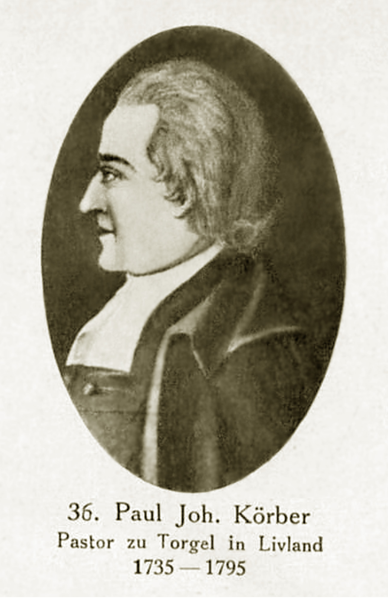 Pastor Paul Johann Koerber. Seuberlich E. «Stammtafeln Deutsch-Baltischer Geschlechter» 1931.